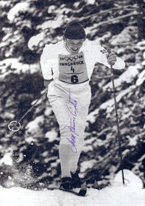 Assar Rönnlund, Innsbruck Olympics